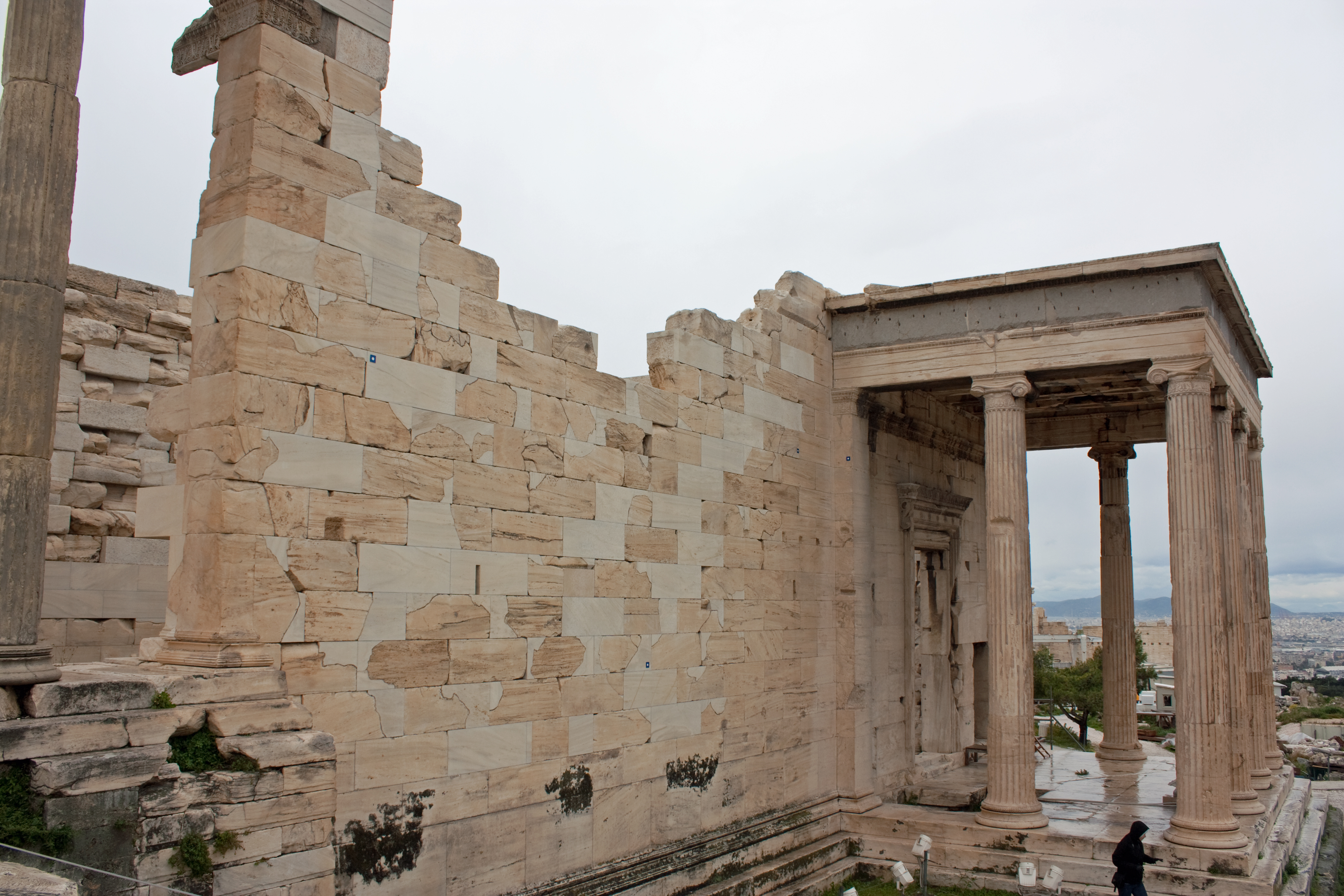 North side of the Erechtheum on a rainy day on the Acropolis of Athens, Greece.